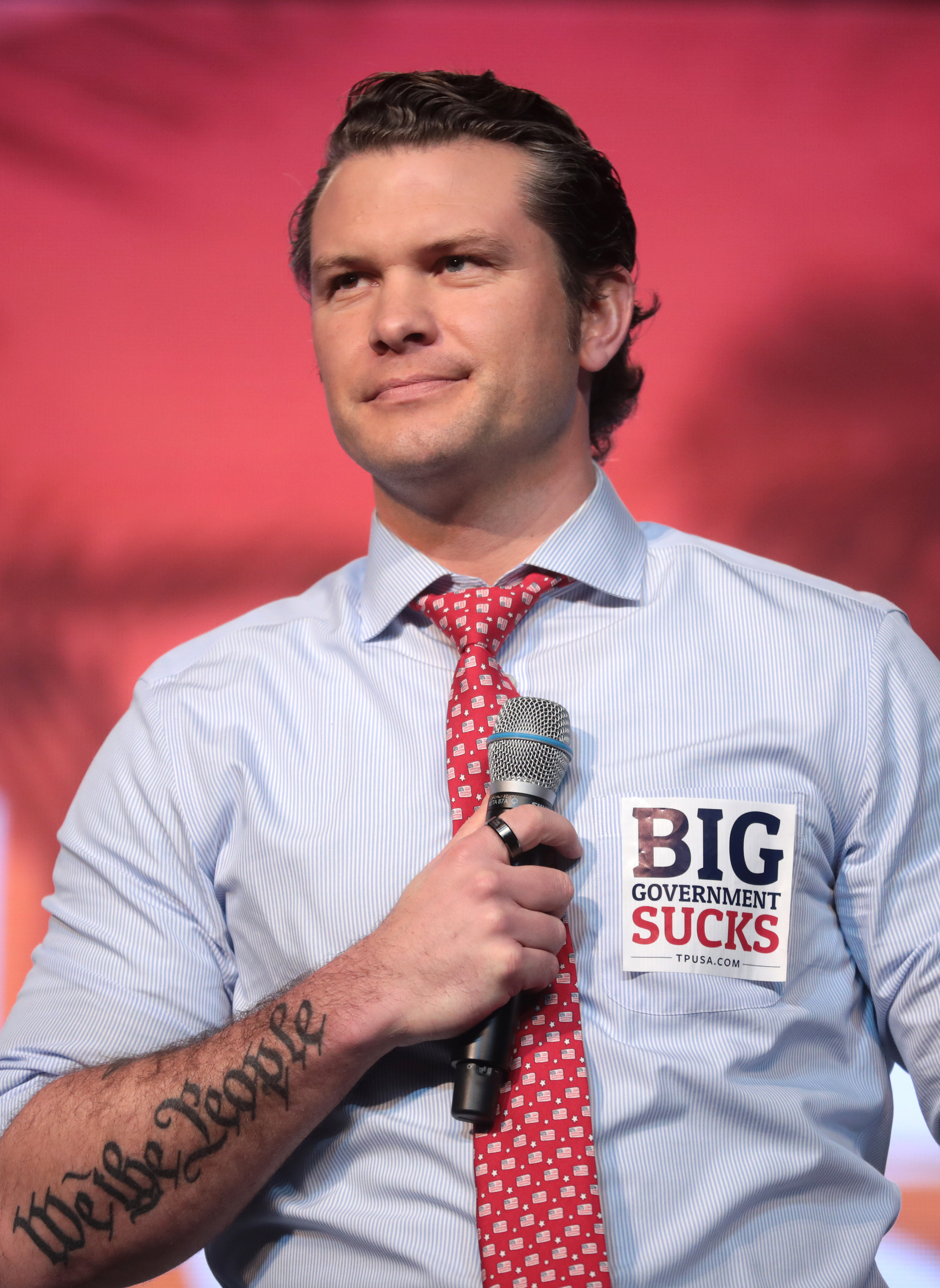 Pete Hegseth speaking at an event in West Palm Beach, Florida.